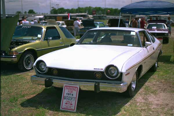 This is a photo I snapped of a Matador X Coupe that was shown at a large car show in Daytona Beach, FL. Owner Steve and Mary Williams.